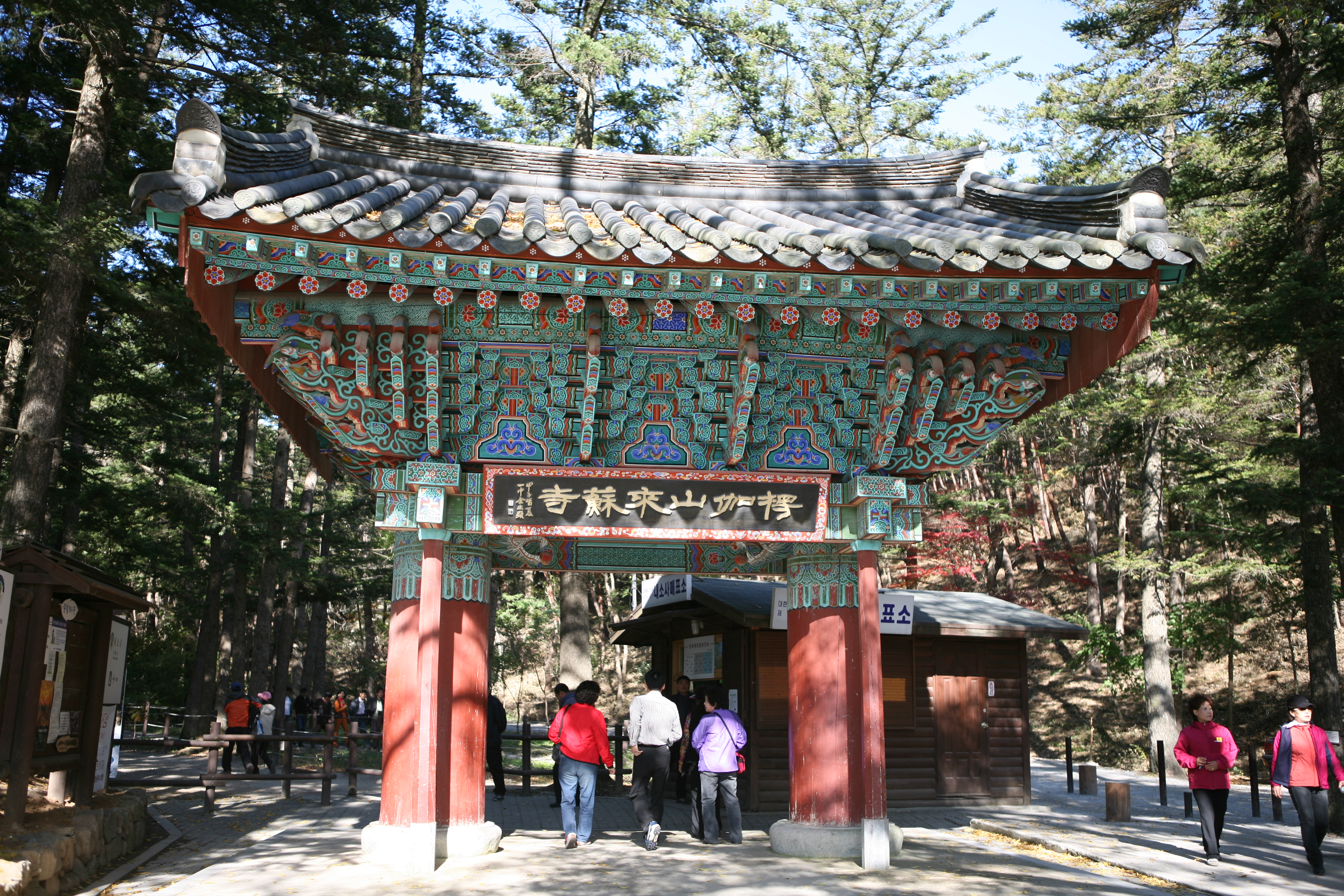 Iljumun, the first gate at the entrance called the "One-Pillar Gate", at Naesosa